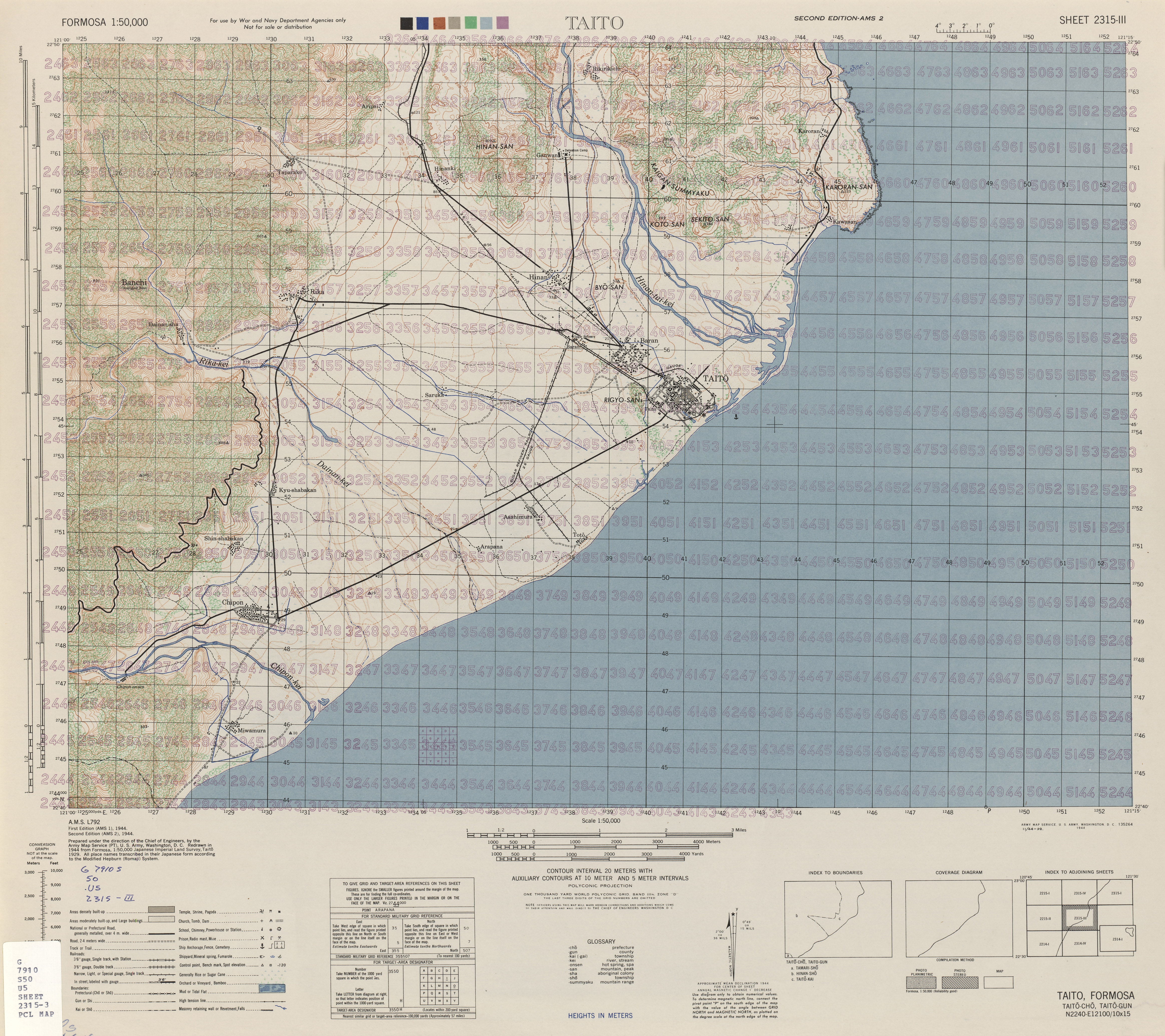 Map from Formosa (Taiwan) 1:50,000 AMS Series L792